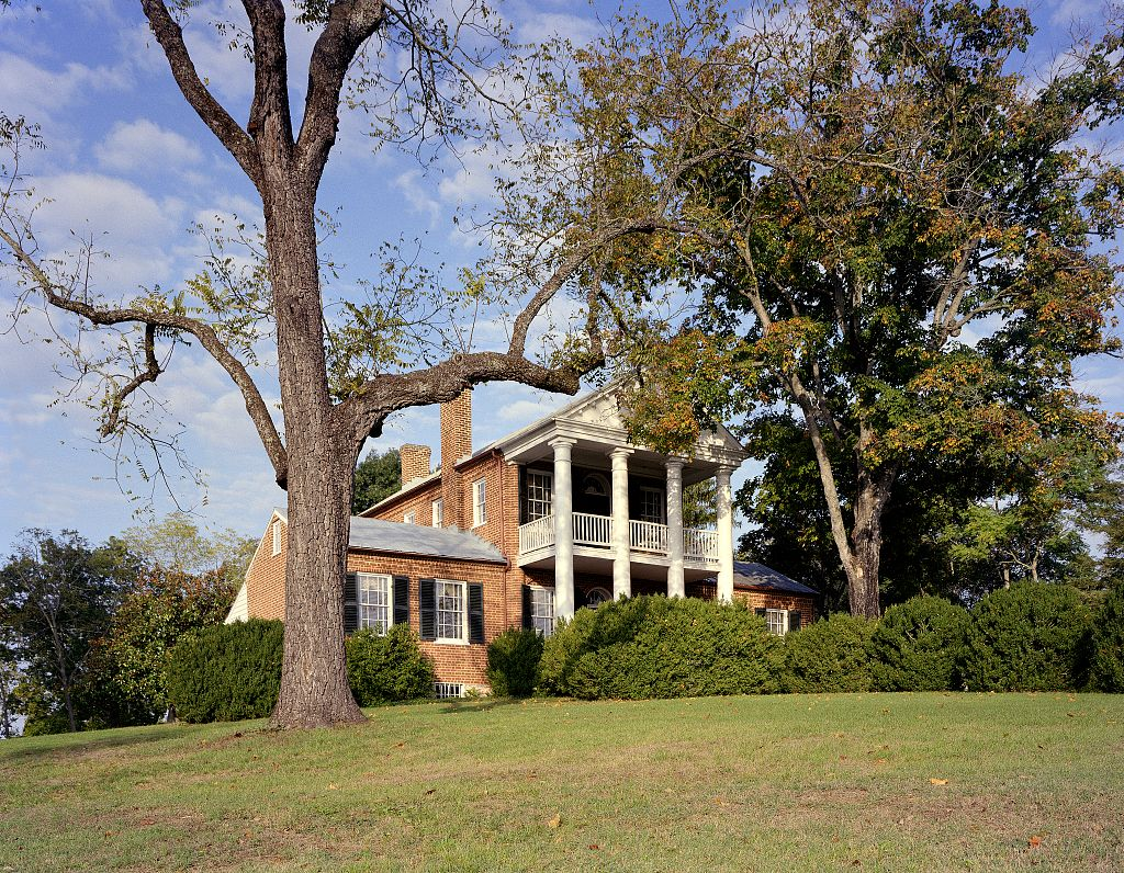 Stono, built by Colonel John Jordan in 1818, is located at Jordan's Point just north of the Virginia Military Institute in Lexington, Virginia. The house is one of Virginia's earliest examples of Roman Revival architecture. Photograph courtesy of the Carol M. Highsmith Collection, Library of Congress, Washington, D. C. Collection donated to the Library of Congress with no known restrictions on publication.[1]